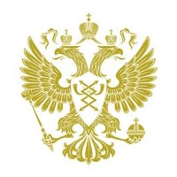 Emblem of the Federal Agency for Communication of the Russian Federation